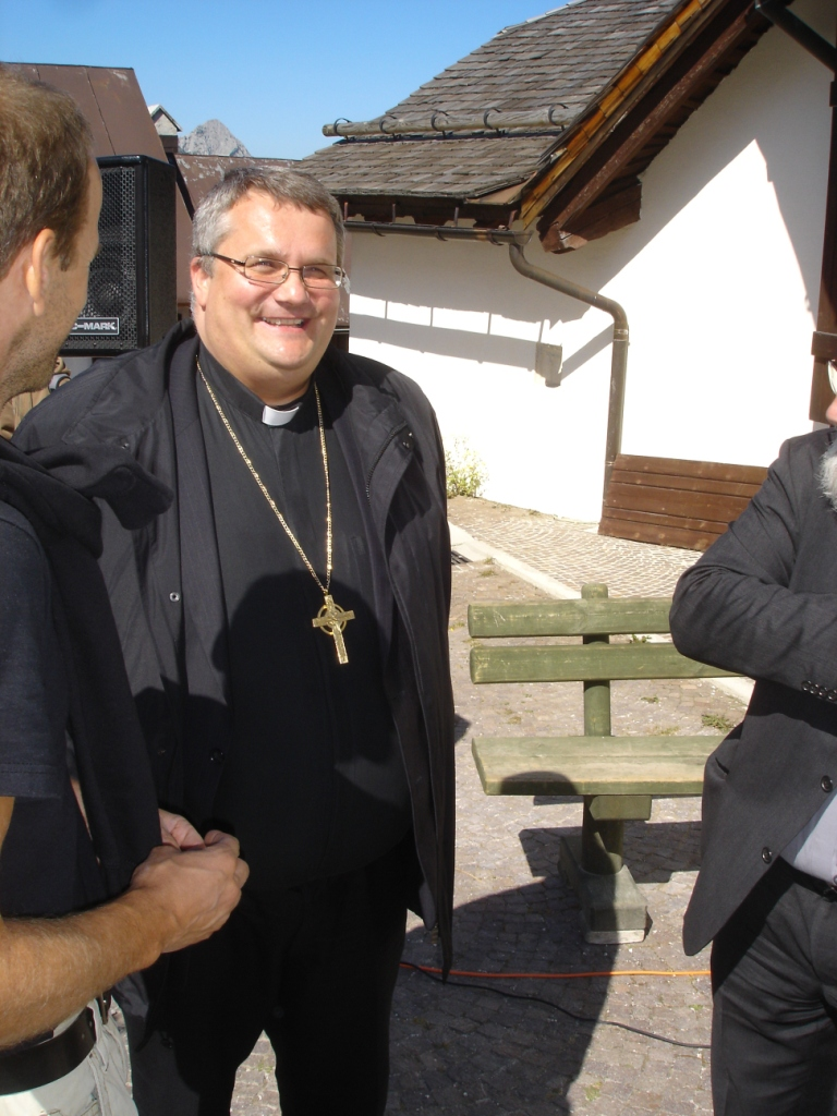 Bishop Peter Štumpf on Svete Višarje (Italy) on August 5. 2007